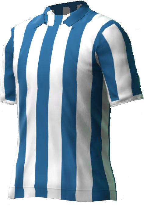 Salerno t-Shirt